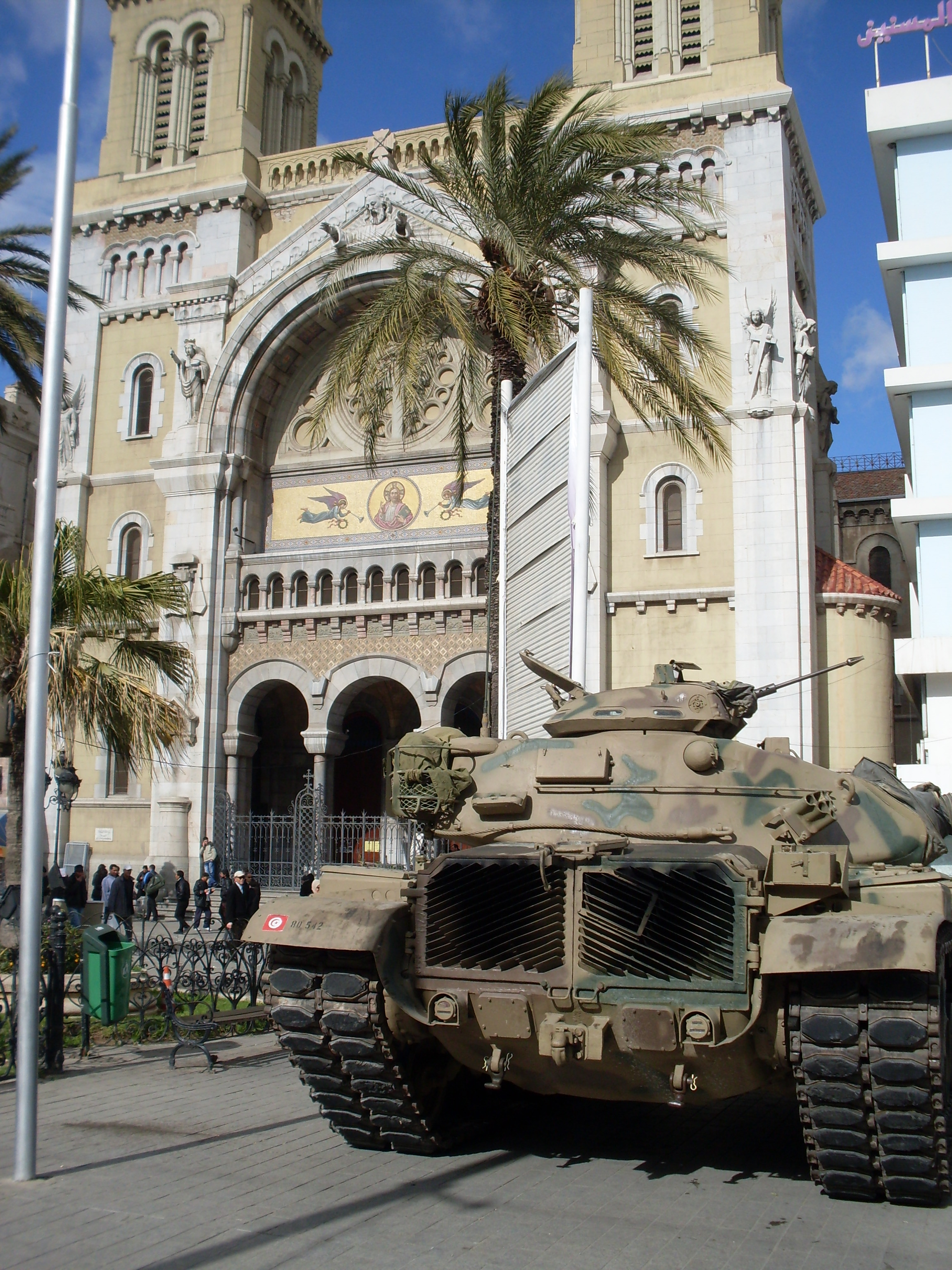 M60 tank in front of the Cathedral of Tunis, during the Jasmine Revolution